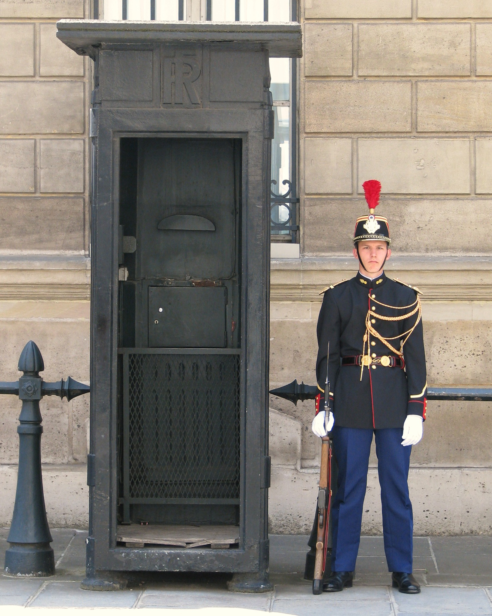 Member of the Republican Guard Infantry at the main entrance to the Élysée Palace